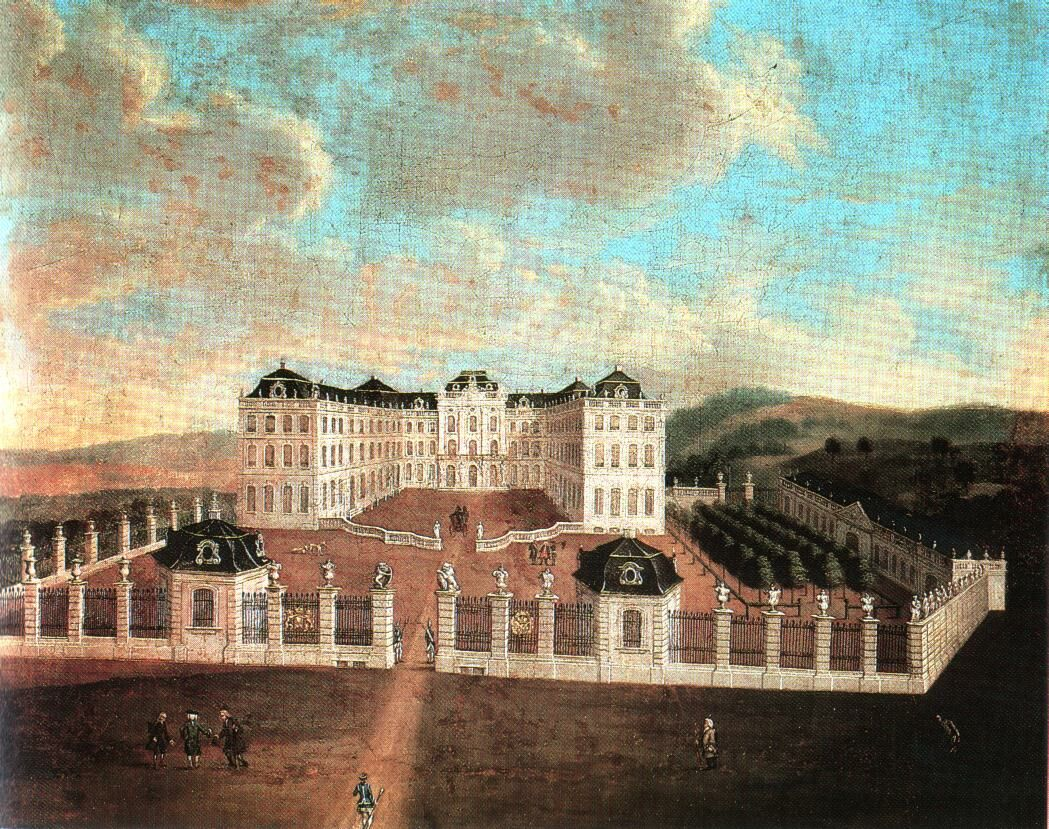 Contemporary painting of the Schloss Saarbrücken